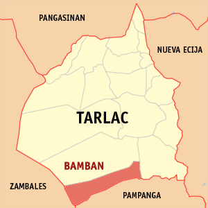 Map of Tarlac showing the location of Bamban